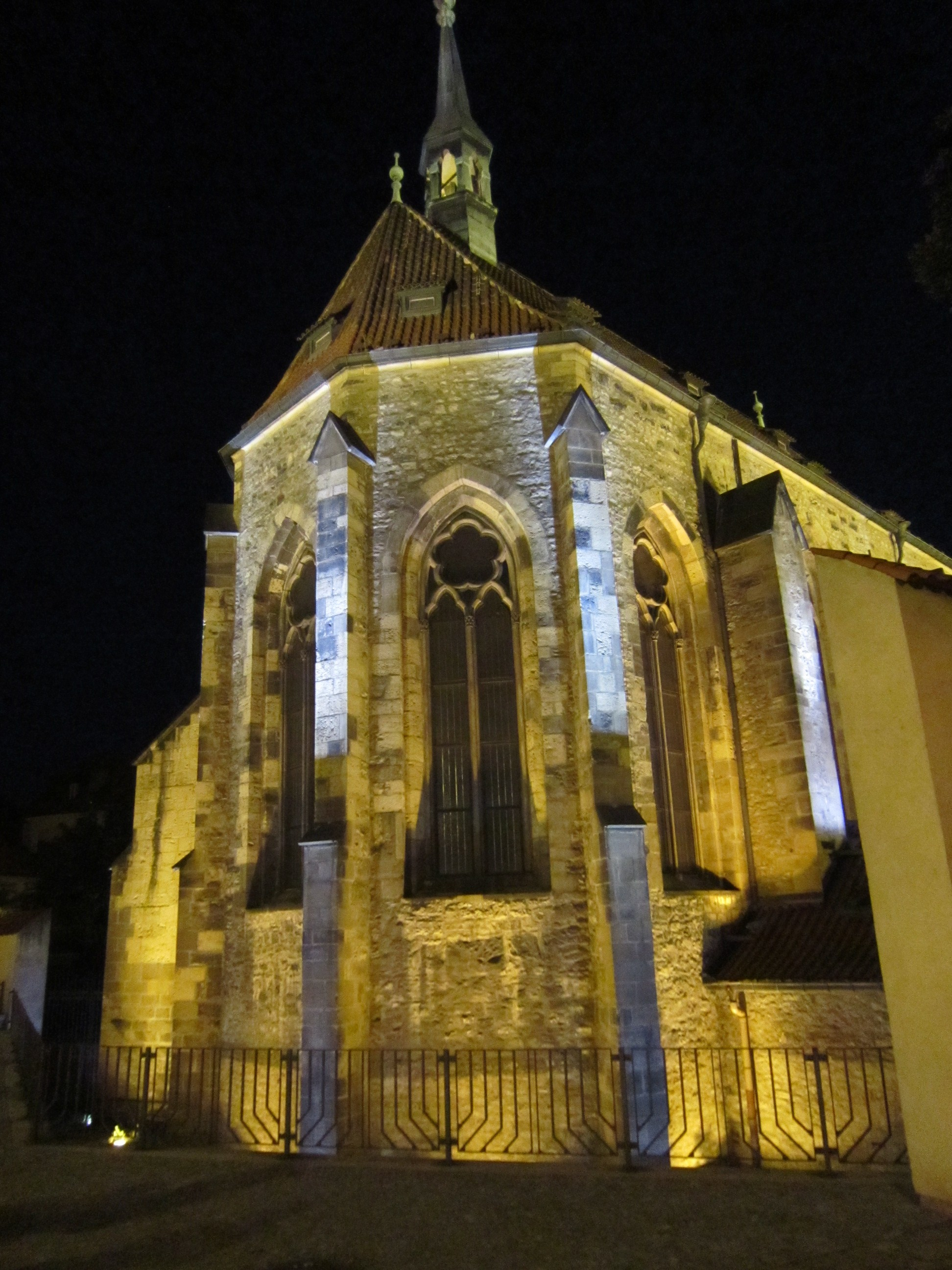 Convent of St. Agnes of Bohemia in Prague